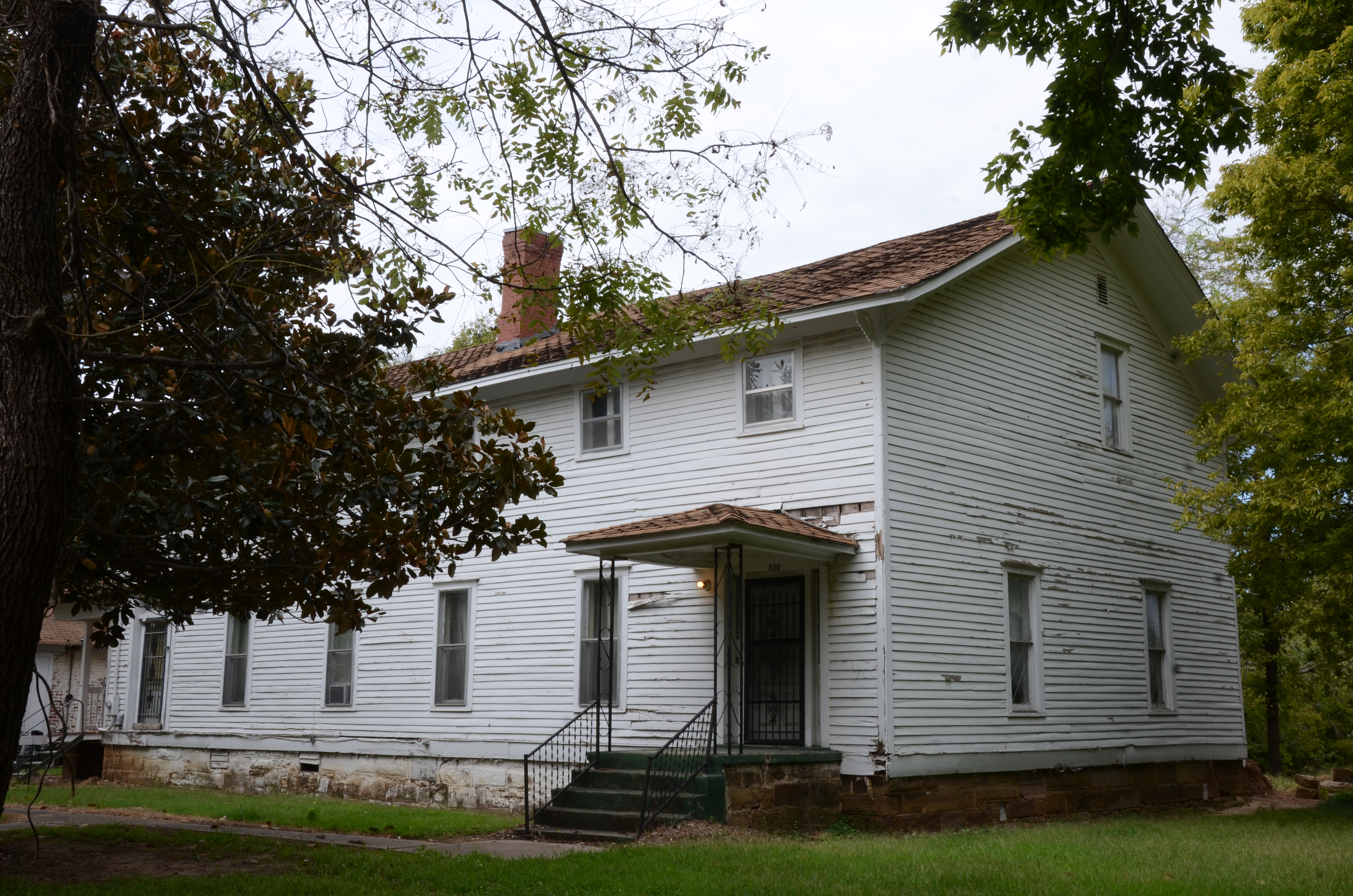 Officer's Quarters